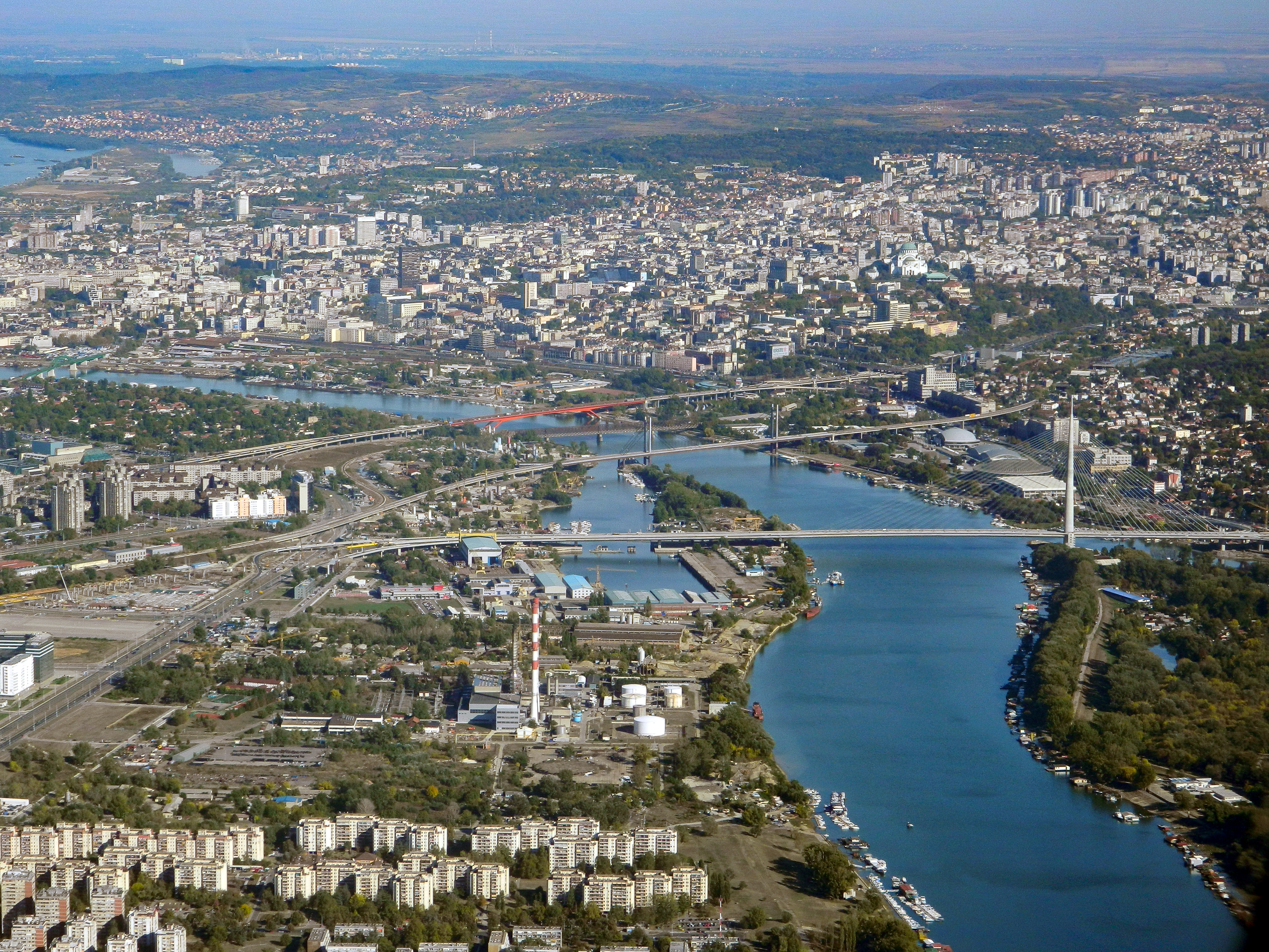 Panoramic view of Belgrade from Lufthansa LH 1407 flight.